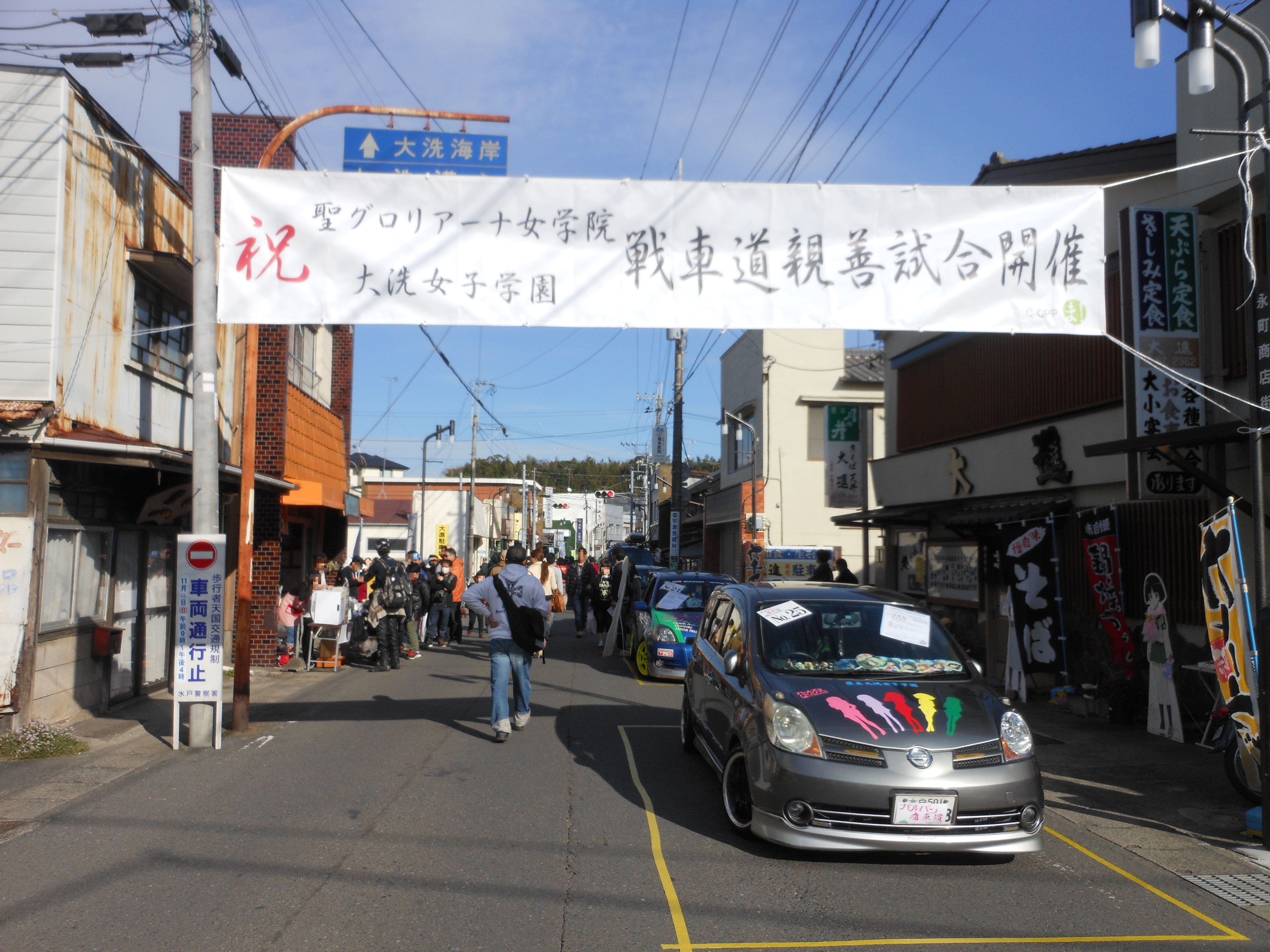 This is one scene of Itasha contest in Oarai Anglerfish Festival 2014 at Oarai, Ibaraki, Japan.